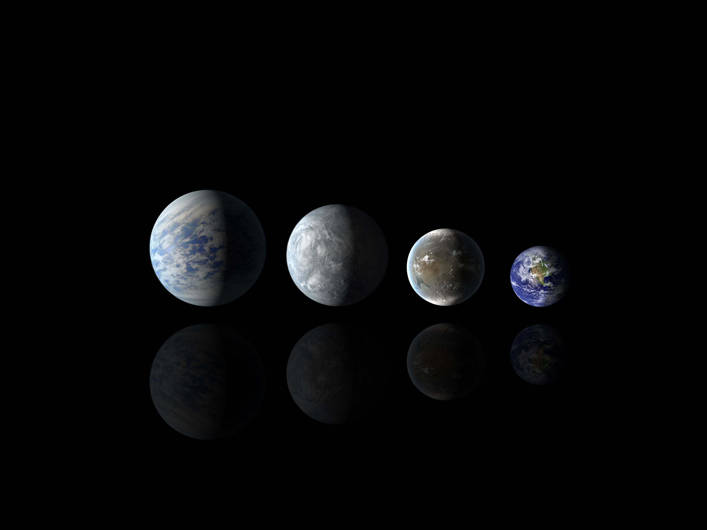 Relative sizes of the newly discovered habitable-zone planets and Earth. Left to right: Kepler-69c, Kepler-62e, Kepler-62f and Earth (except for Earth, these are artists' renditions). Note that this image has been superceded by File:Kepler-22b, Kepler-69c, Kepler-62e, Kepler-62f and Earth.jpg due to more accurate size estimates.